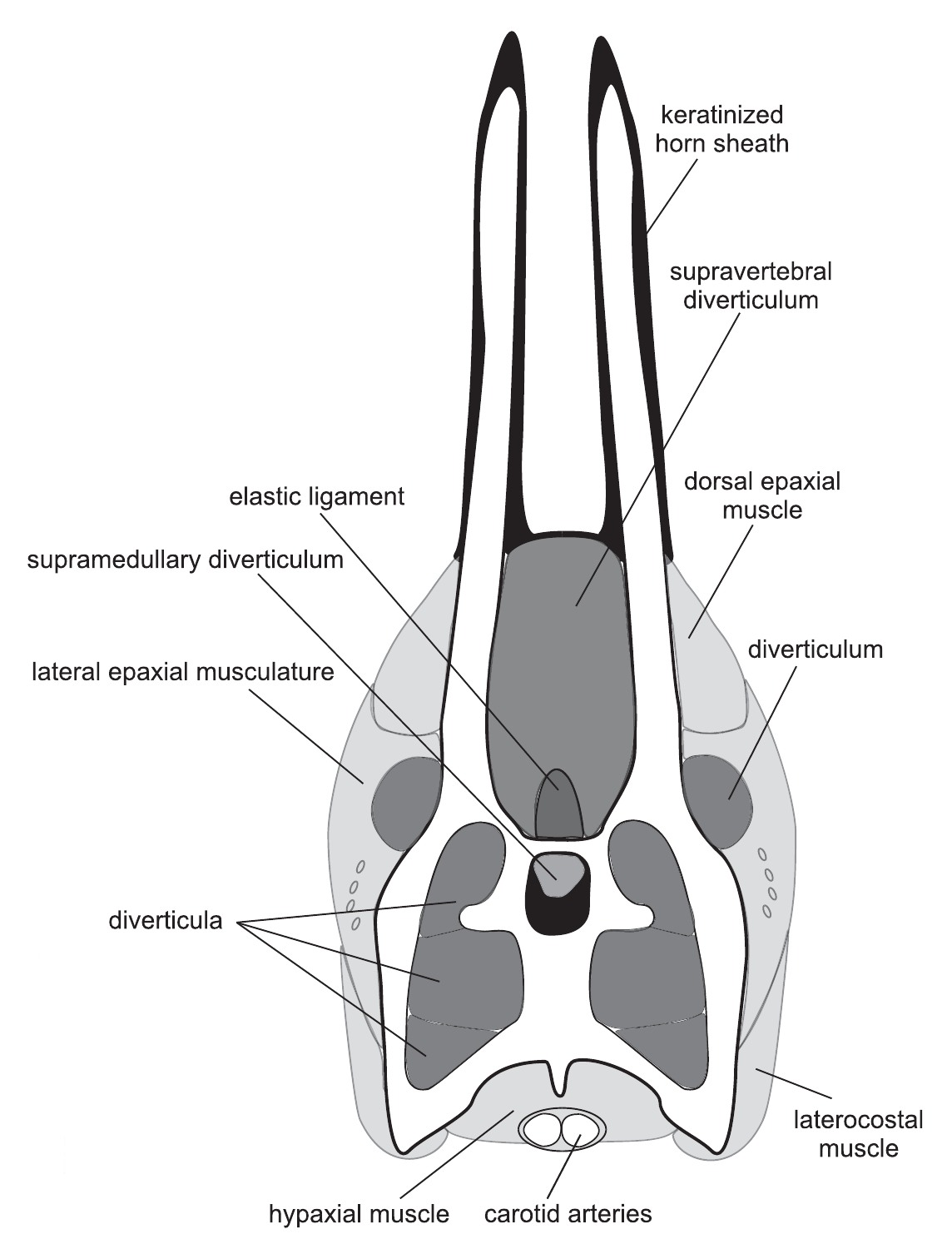 Cervical vertebral anatomy of Amargasaurus. Transverse cross−sections through cervical vertebra in the diapophysis region, with internal extension of pneumatic cavities basing on Dicraeosaurus hansemanni.